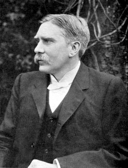 old picture of Arthur Christopher Benson, author of the words to "Land of Hope and Glory"